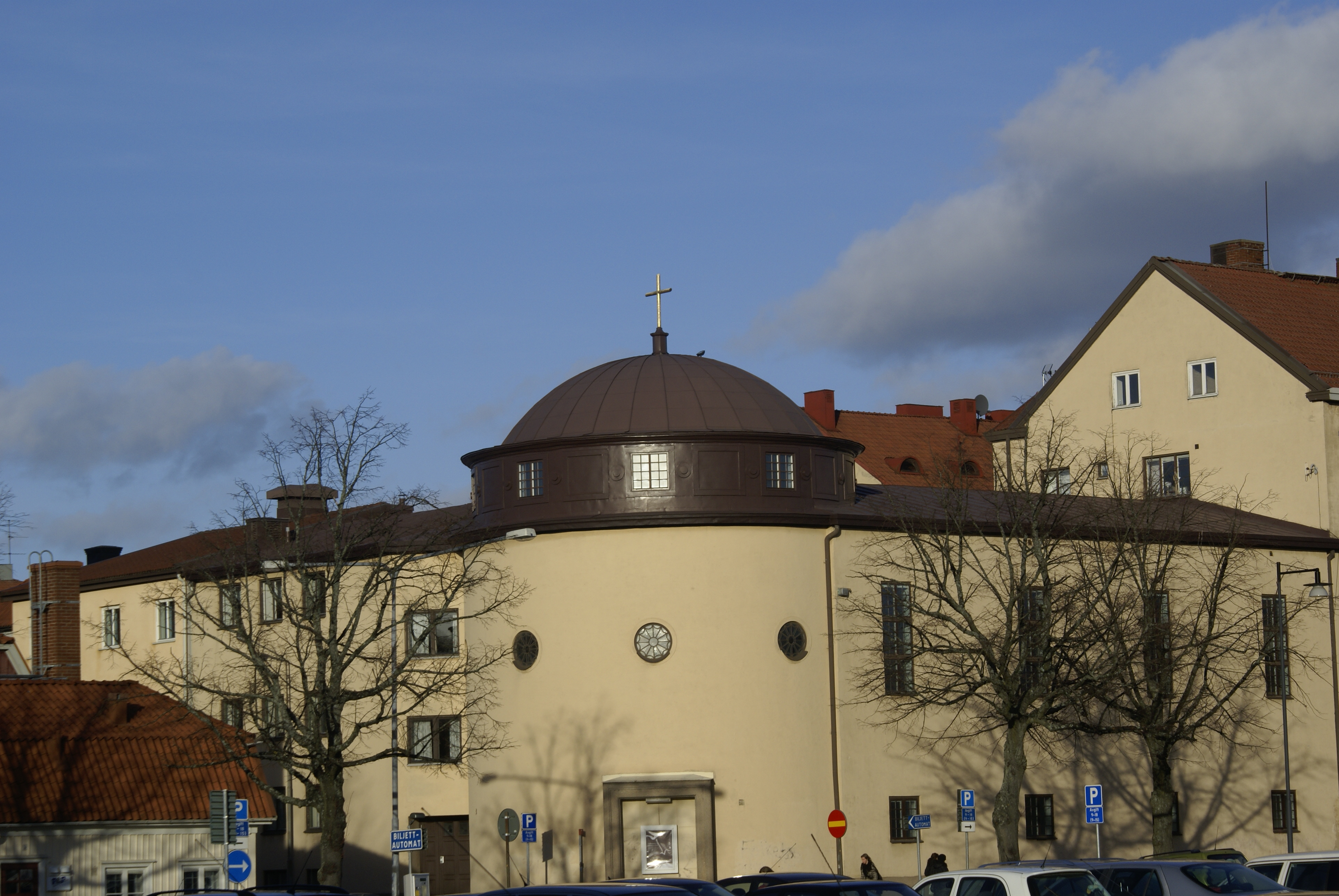 The biggest church of Swedish Alliance Mission